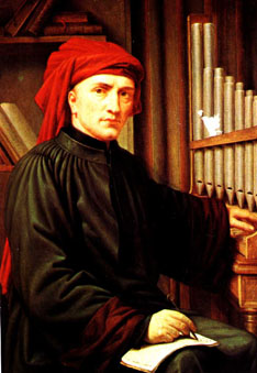 Portrait of Josquin des Prés.